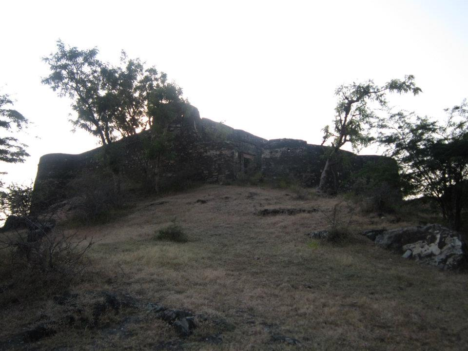 Old fort of Solanki, in Aravali hills in Jojawar. It's facing north and one gate facing east.